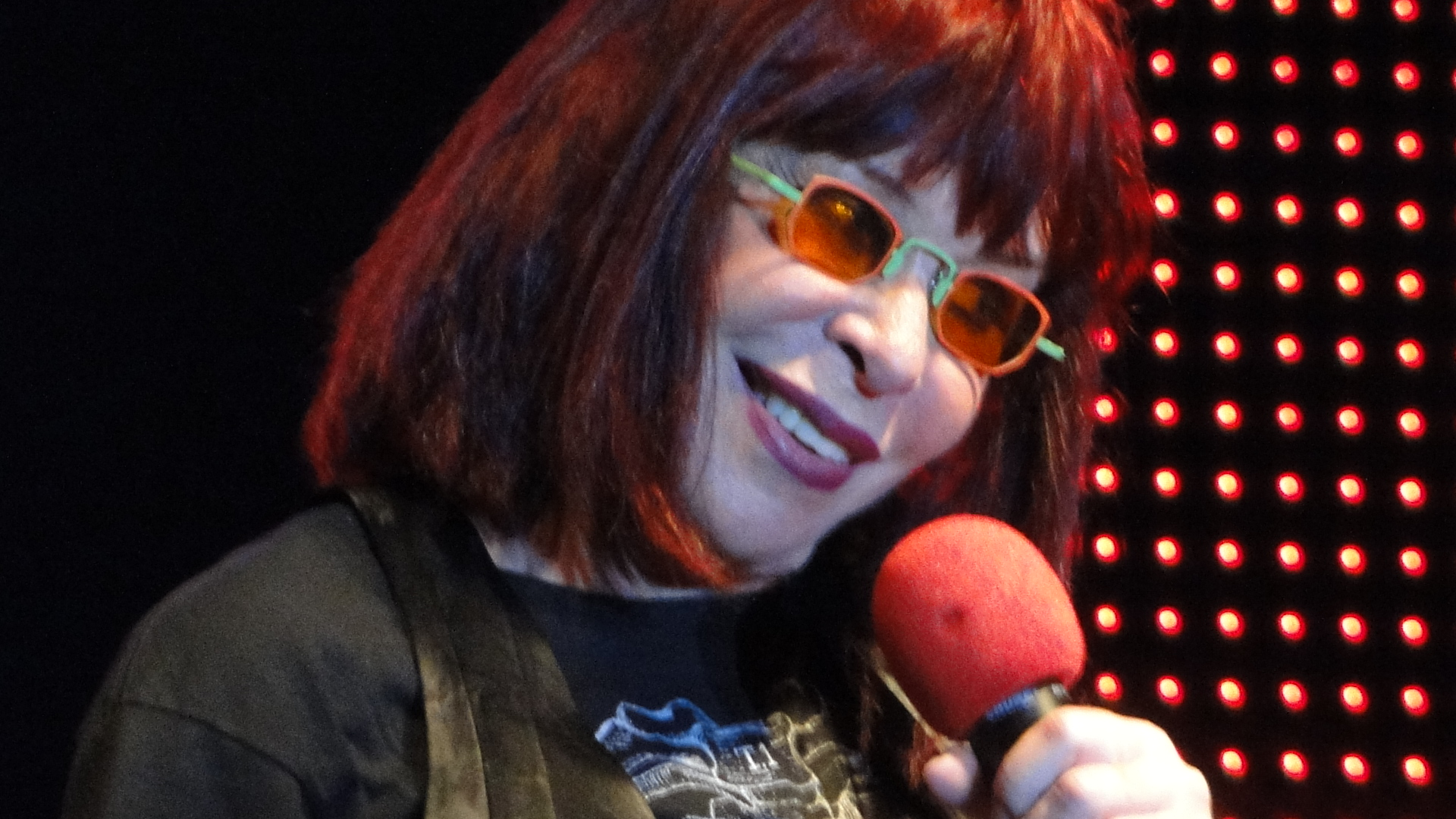 Rita Lee in concert in Araçatuba, May 23, 2009